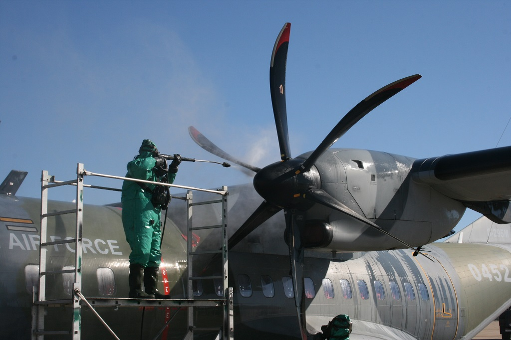 NATO personnel decontaminate a Czech Air Force CASA C-295M aircraft during a Chemical, Biological, Radiological and Nuclear (CBRN) drill in Spain on October 30, 2015 during Trident Juncture 15.